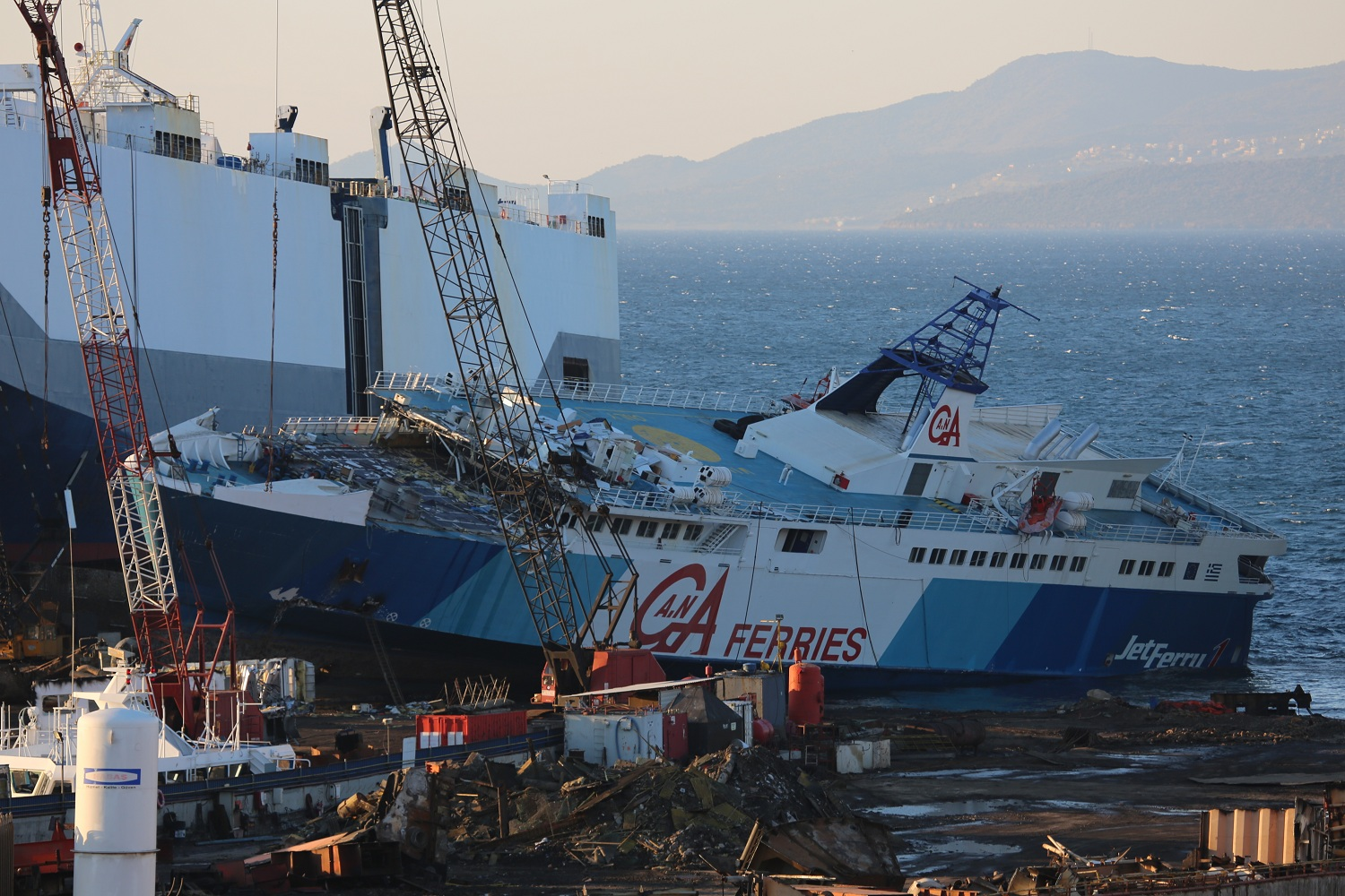 The Jetferry 1 during its scrapping at Aliağa on February 7, 2016.